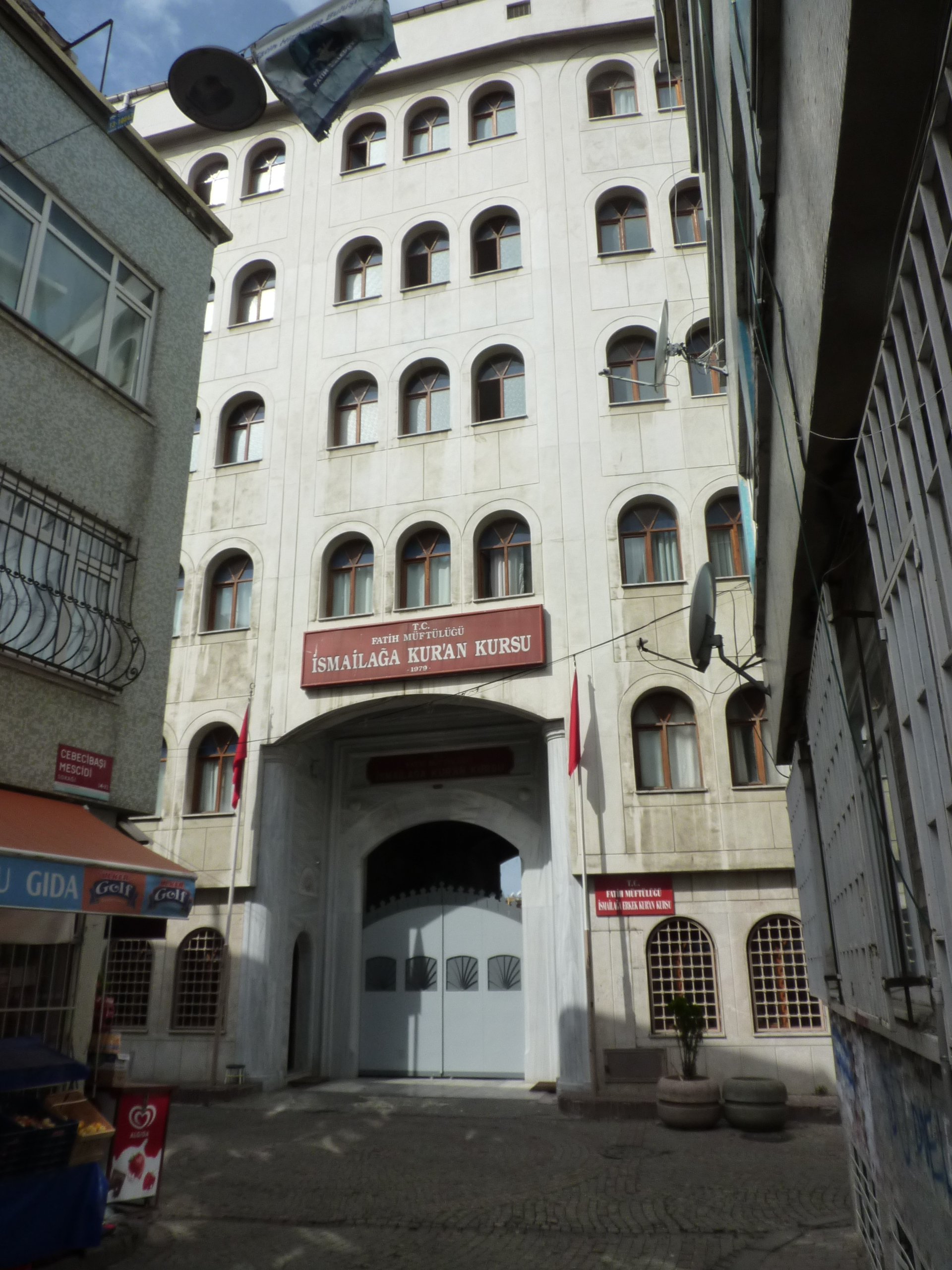 On the streets of Phanar: "Ismail Aga Coran Courses", an official summer course